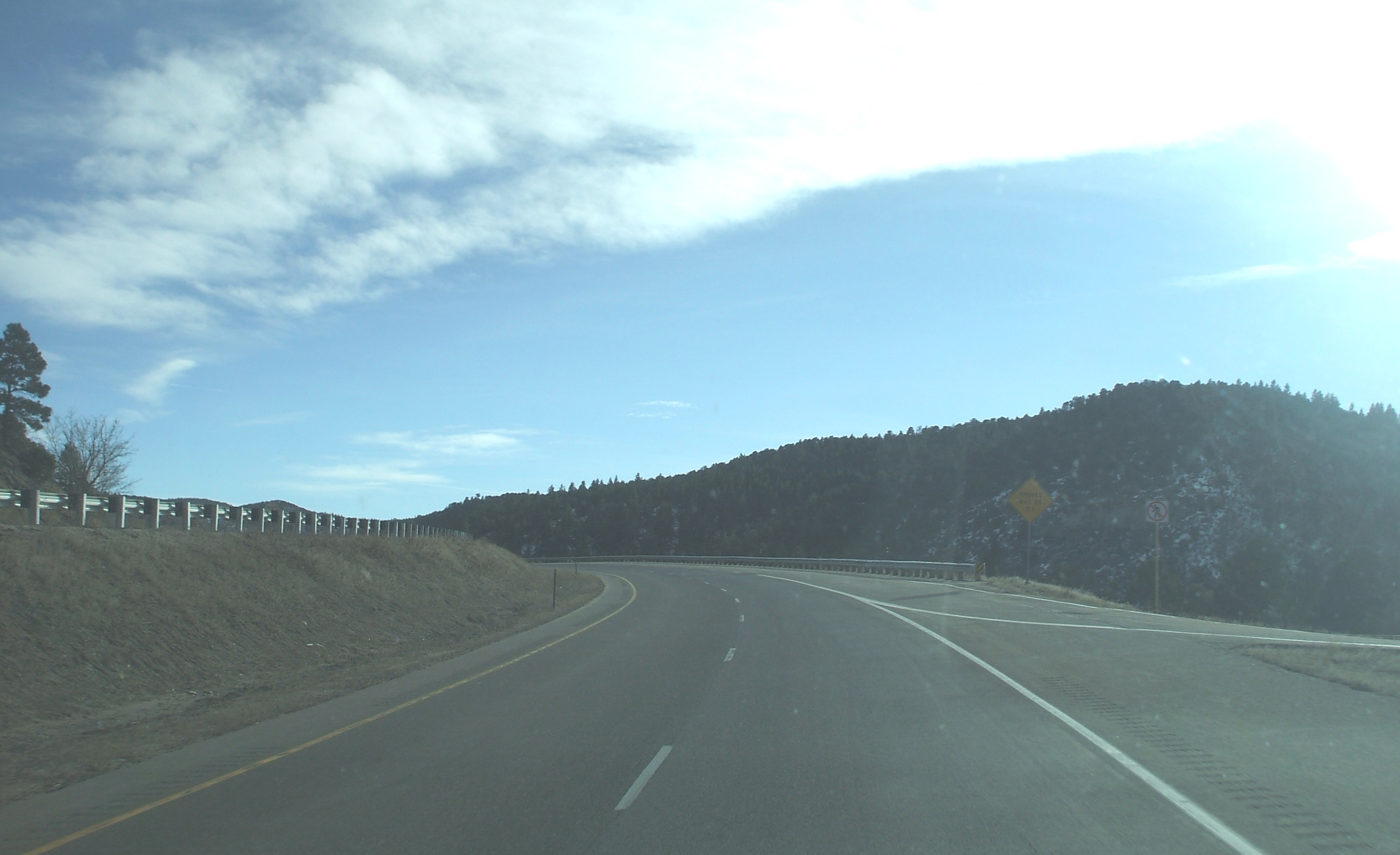 Interstate 25 southbound in Colorado at exit 8 headed up Raton Pass.